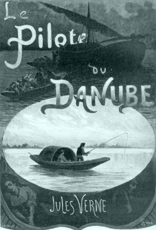 An illustration from Jules Verne's novel "The Danube Pilot" (1908) drawn by George Roux.